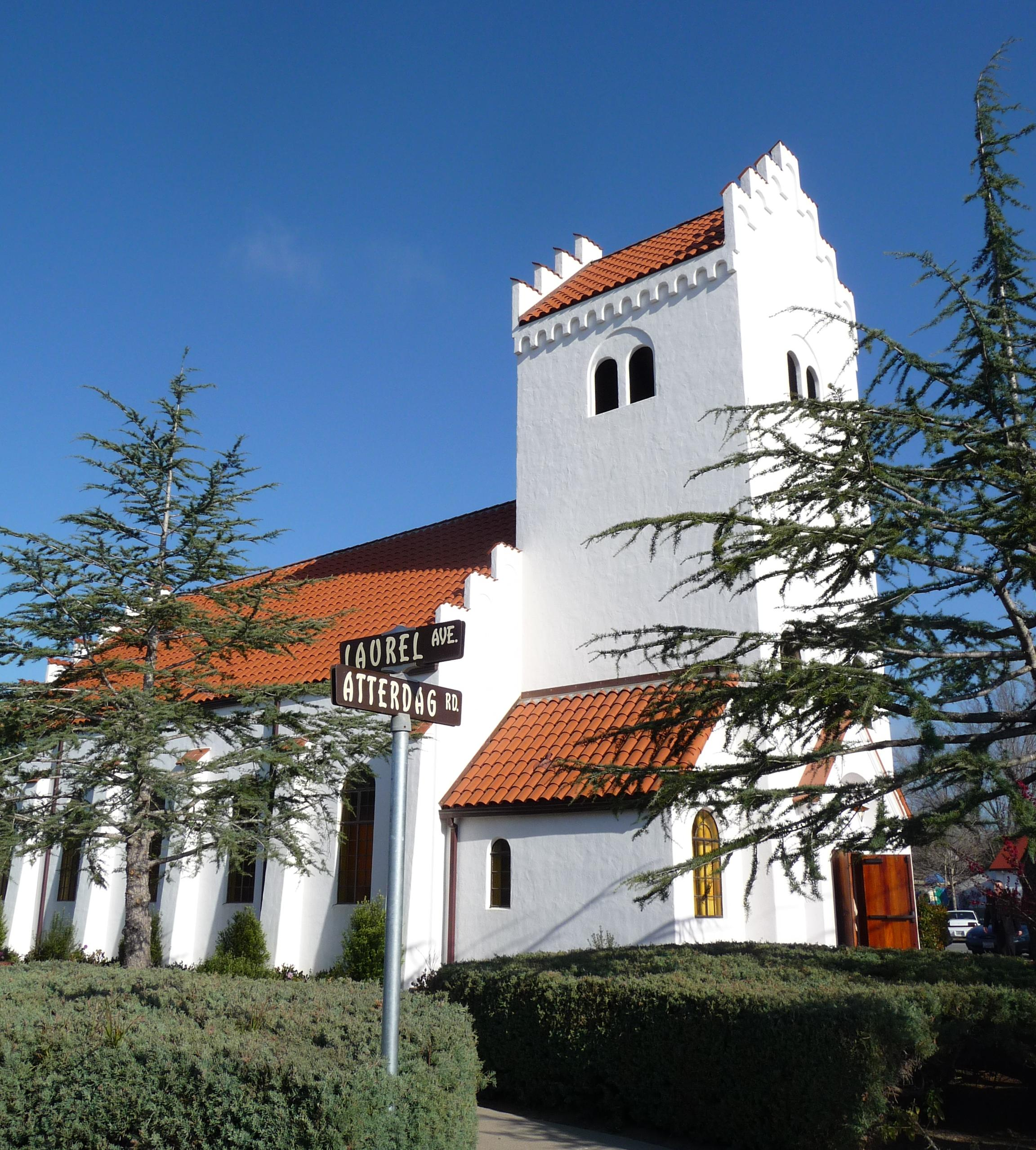 Solvang, California. Bethania Lutheran Church. Built 1928 by Hans Skytt in the style of a 14th century Danish rural church.